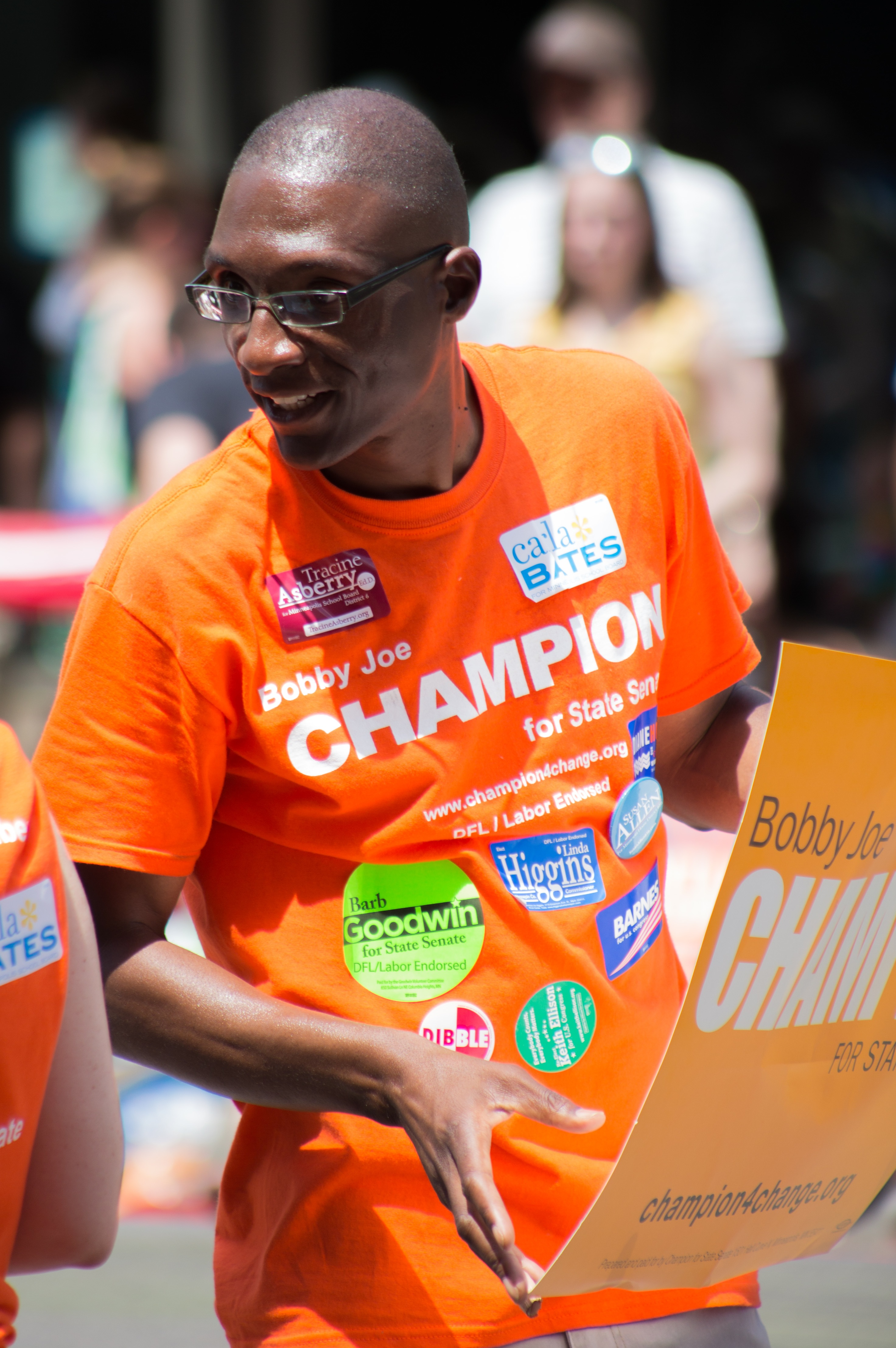 Minnesota State Senator Bobby Joe Champion